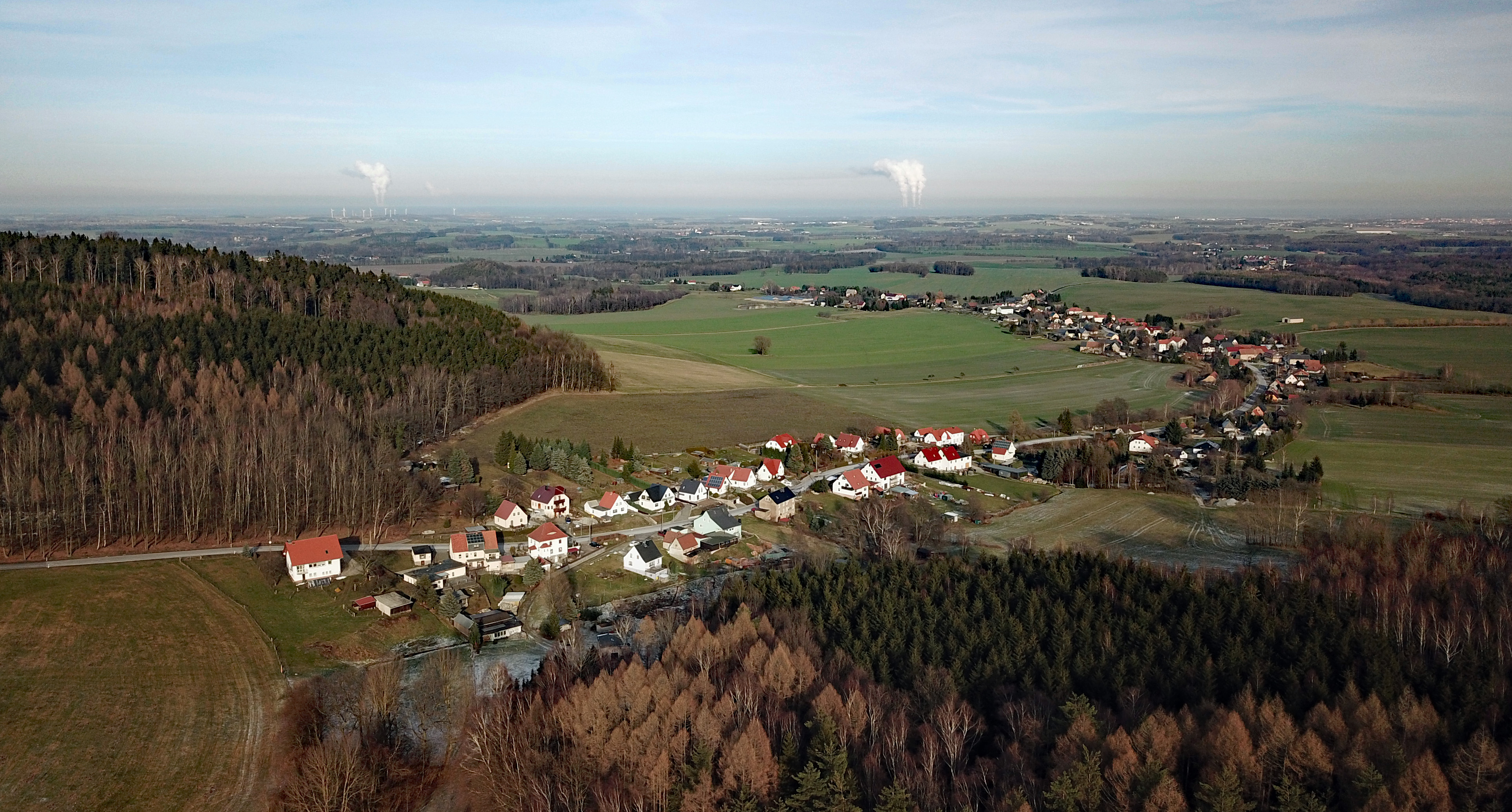 Naundorf (Doberschau-Gaußig, Saxony, Germany) Hornjoserbsce: Powětrowy wobraz Noweje Wsy pola Huski